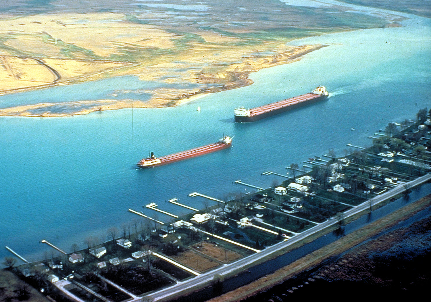 Great Lakes freighters navigating on the lower St. Clair River between Michigan, USA and Ontario, Canada. The view is from the American side looking across to Canada. The Walpole Island Indian Reserve is directly across on the Canadian side.